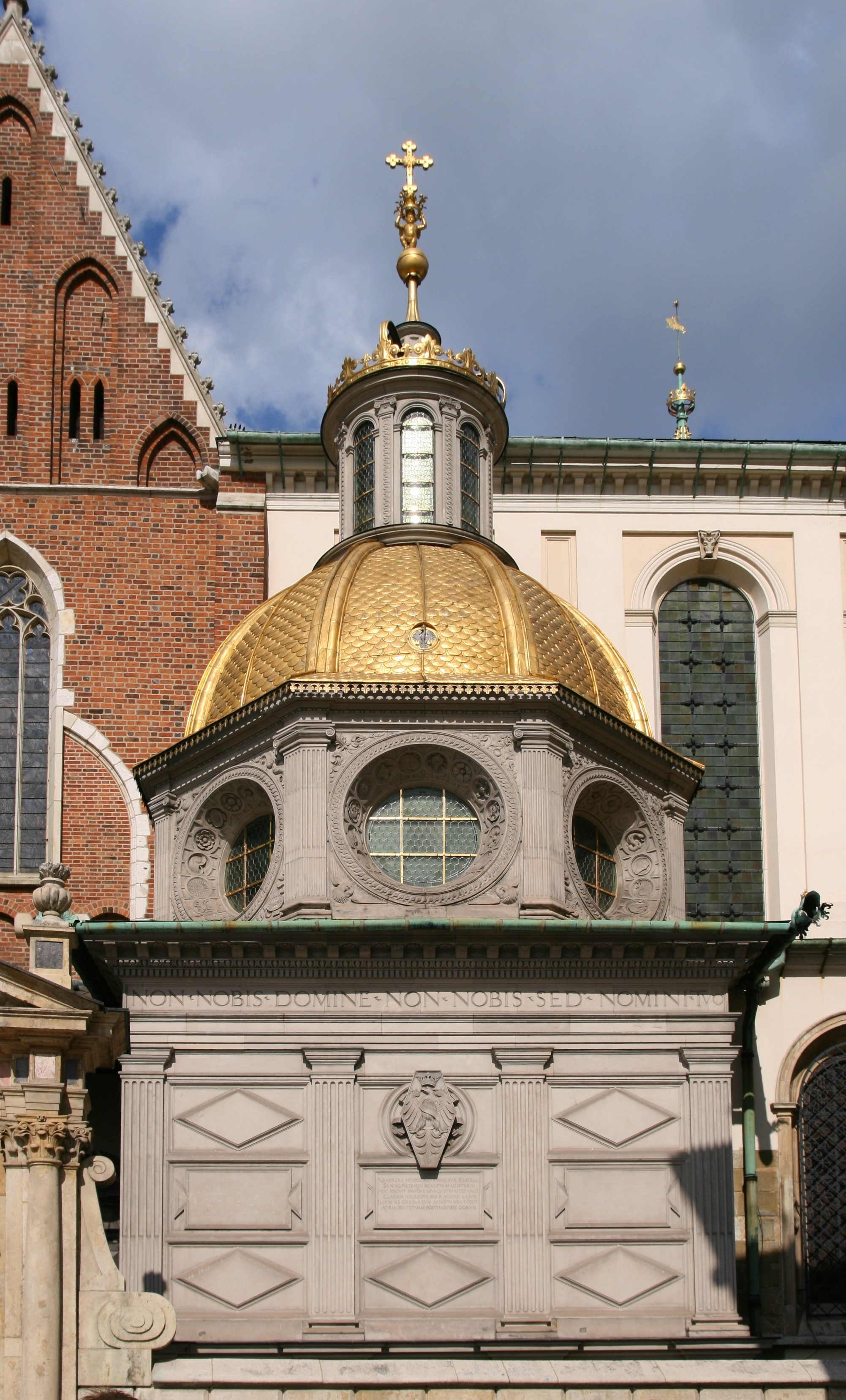 Zygmunt's Chapel of Wawel Cathedral in Kraków (Poland).